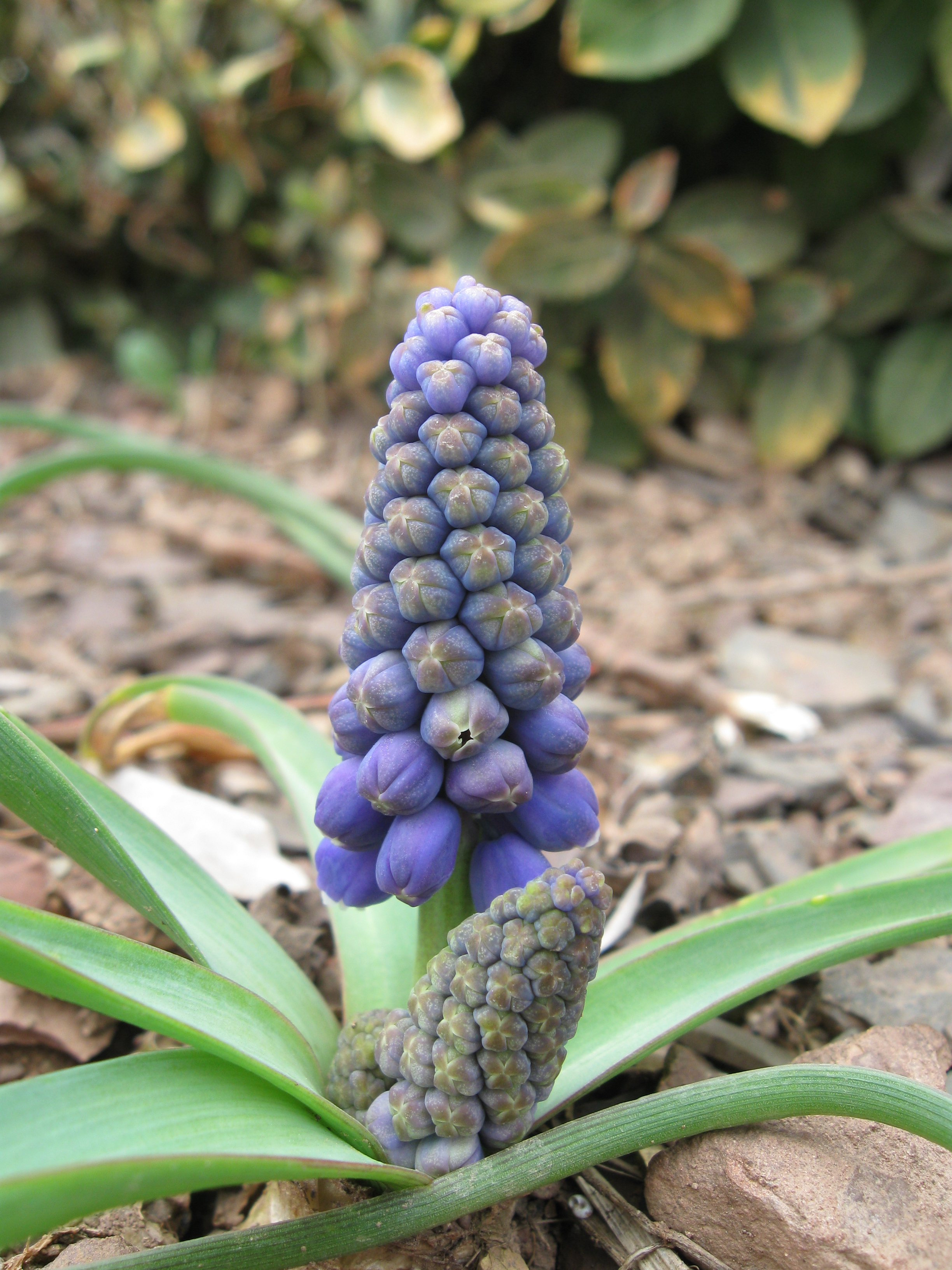 Certain plants have the ability to reproduce asexually. Such an ability is called vegetative reproduction. This is a Muscari performing vegetative reproduction.